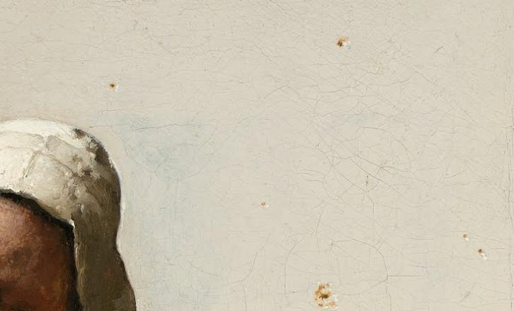 Detail of holes in the wall